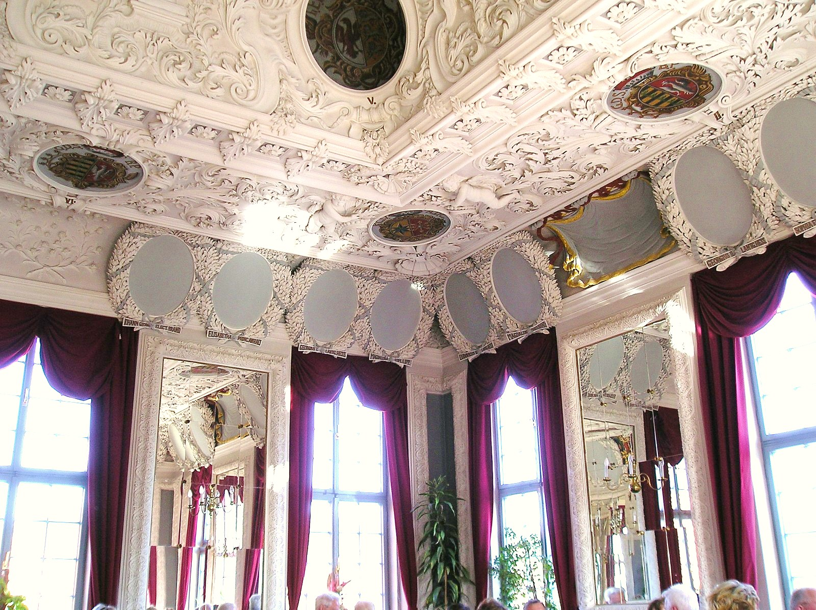 Castle Schloss Elisabethenburg in Meiningen - the baroque „Hessensaal“ - it's a tower-cafe today.